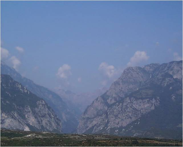 The Valbona Gorge Entrance - viewed from the Has road to Bajram Curri. 'The towering walls of the gorge are studded with clumps of trees and bushes, producing rock formations and patterns of vegetation of a truly Byronic character.' - Pettifer, Blue Guide